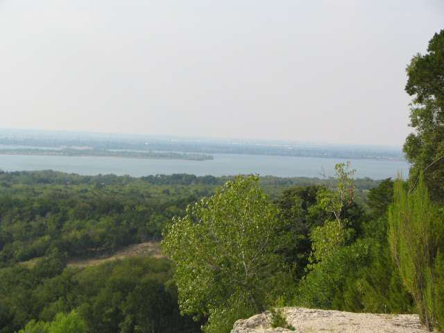 Cedar Hill, Texas. Picture of Joe Pool Lake taken by me from the east shore on 9-10-2005